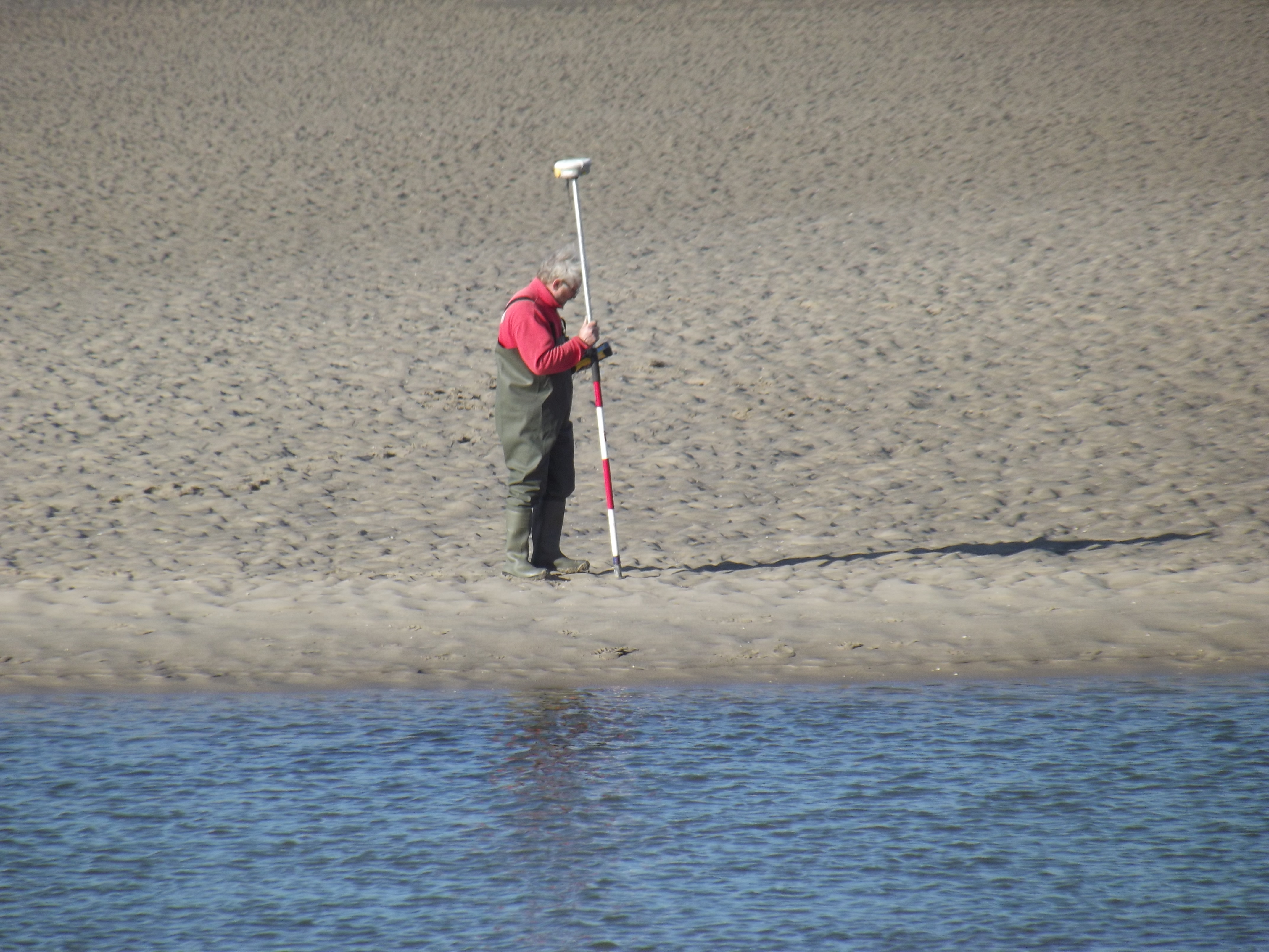 Surveying levels at the Zandmotor.